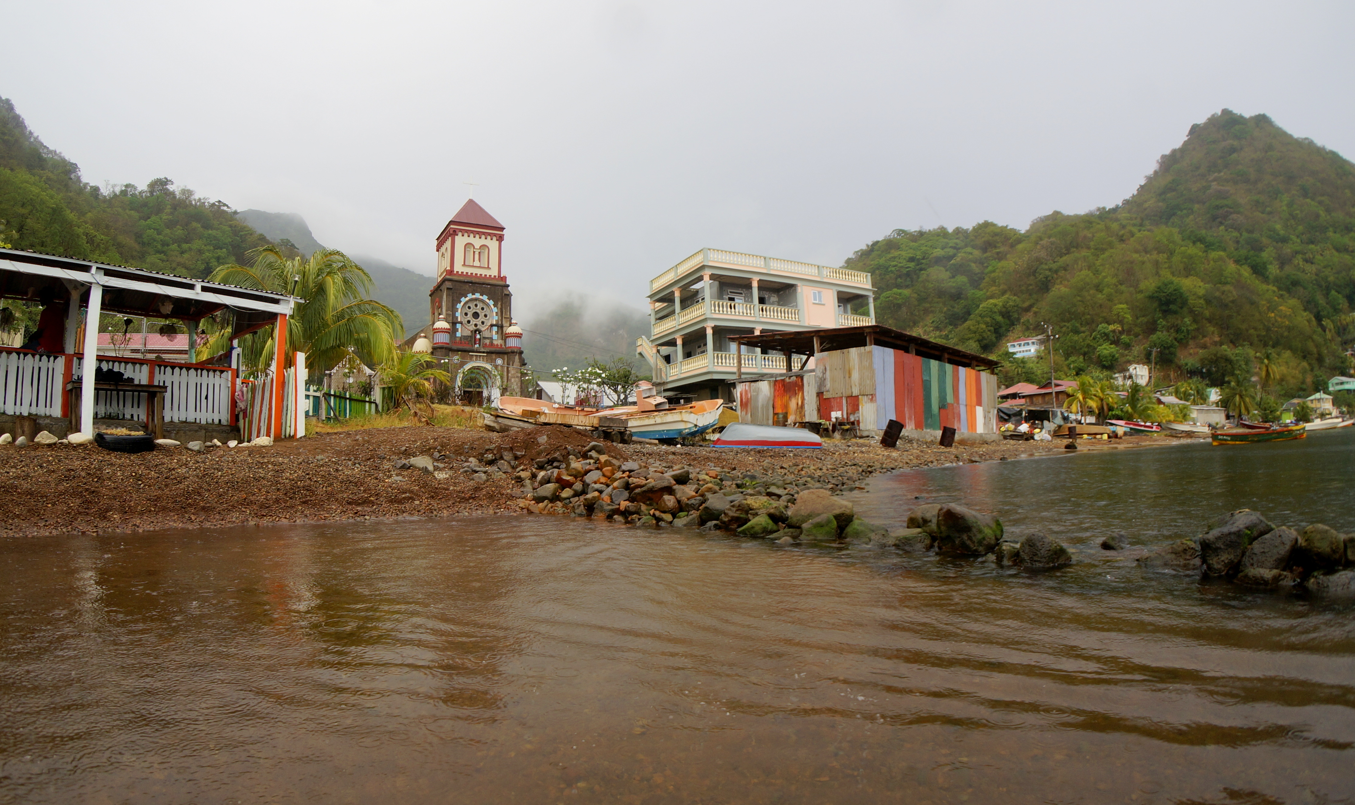 Bubble Beach Spa at Soufrière Bay in Dominica. More freely usable Dominica Travel Images.